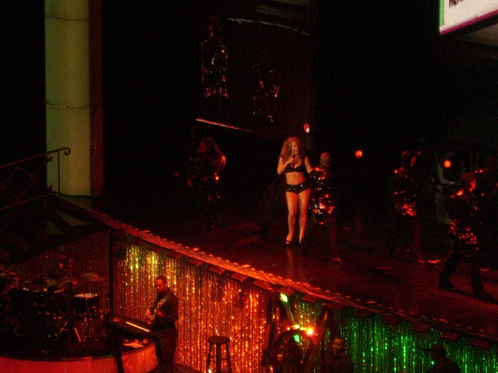 Mariah Carey performing on her Adventures of Mimi Tour in 2006